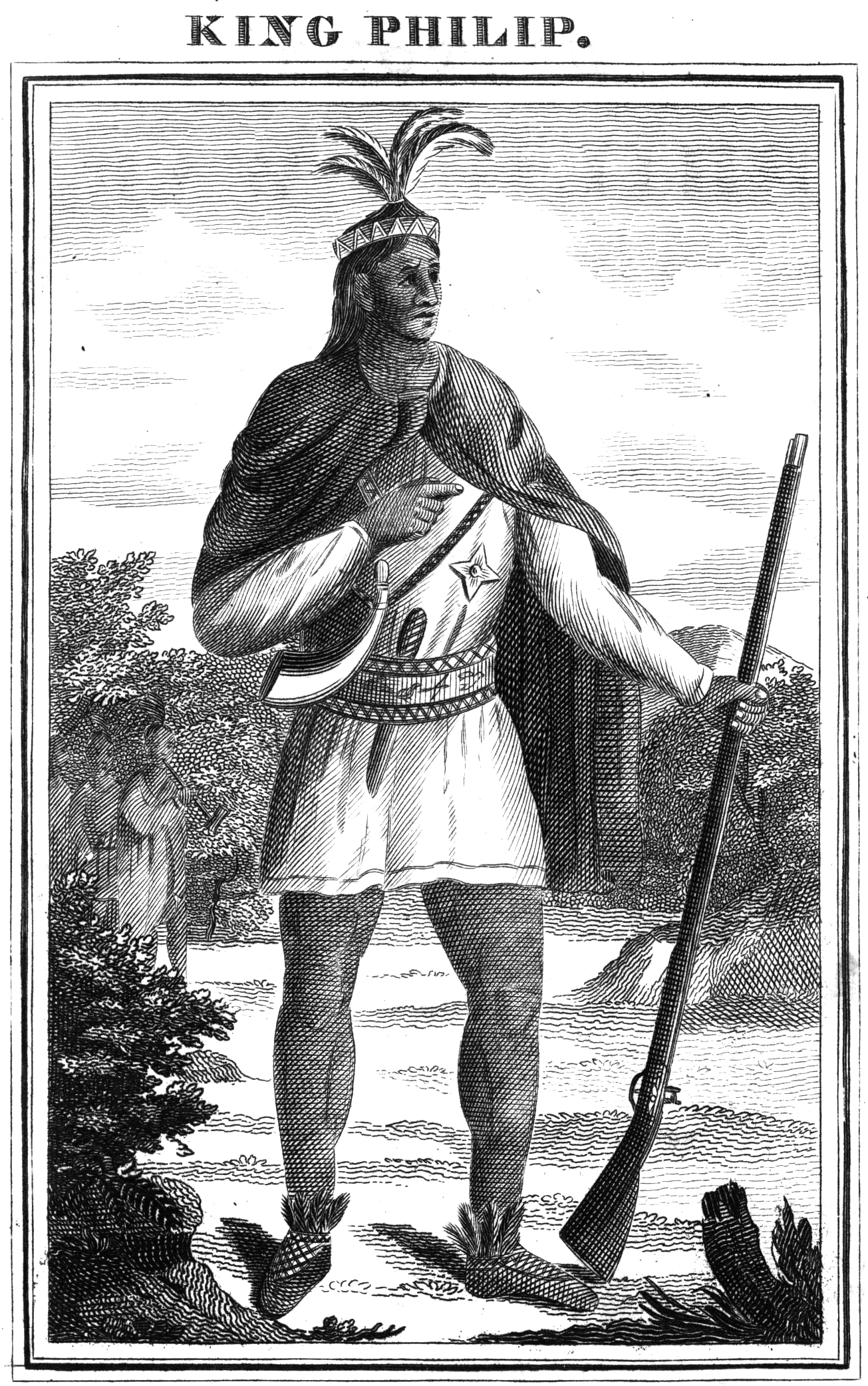 Description according to the metadata delivered with the image by the John Carter Brown Library: Portrait of King Philip or Metacom, a native American, holding a gun or musket. In the background native Americans smoke a pipe. Cultural artifacts include beaded wampum belt, powder horn, feathered headdress, knife, and moccasins.Further notes in the metatdata read: Benjamin Church, 1639-1718, led English troops against the native population during King Philip’s War, which ended when Church captured King Philip (or Metacom) who was chief of the Wampanoag. Samuel Gardner Drake, one of the first antiquarian booksellers in North America and an American Indian historian, reprinted Church’s history in 1825.It should further be noted, that the author/editor of the original edition of 1716(?) was not Benjamin Church himself but his son Thomas Church.